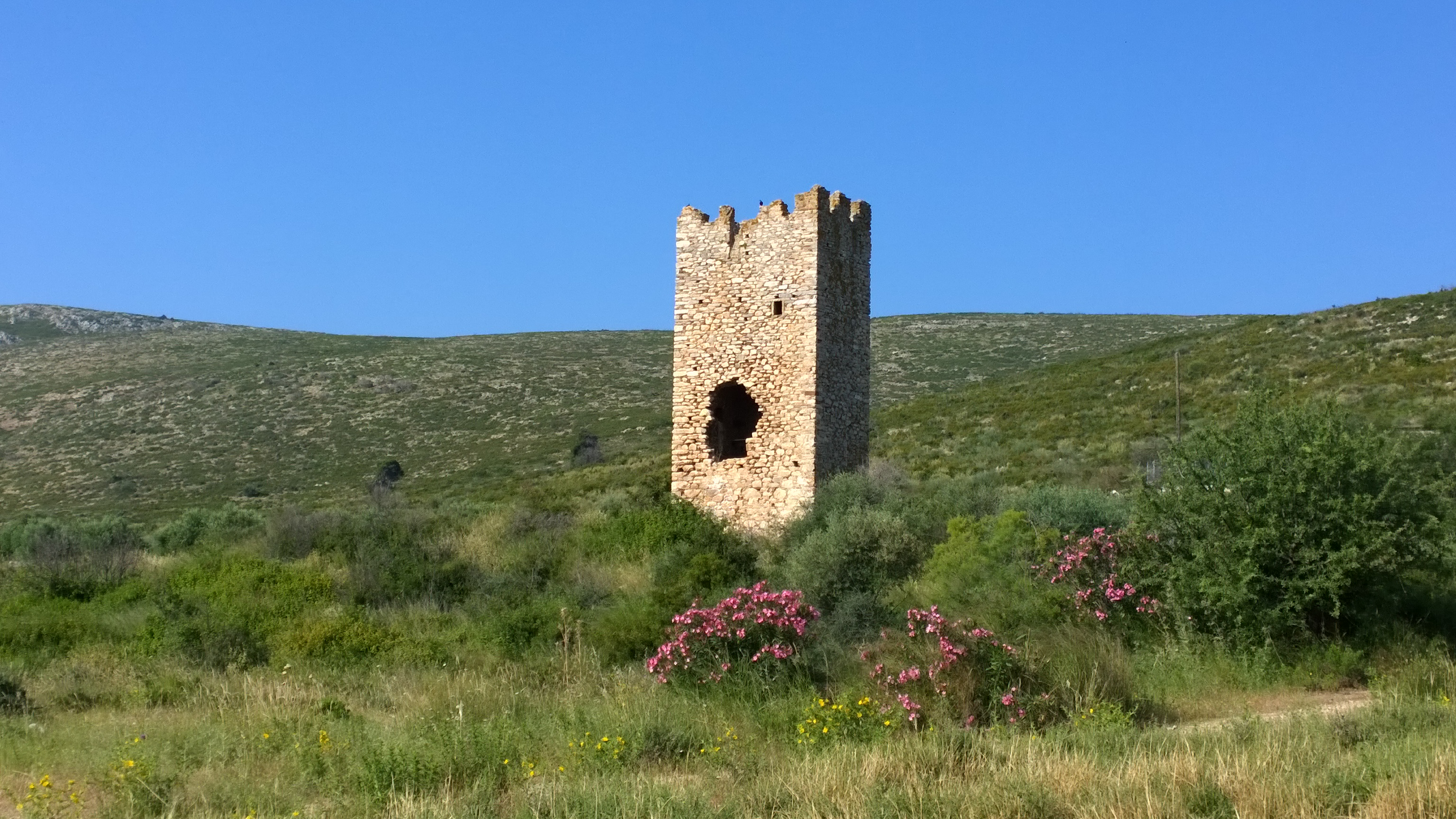 Oinoi Frankish Tower - Near Marathon, May 2014